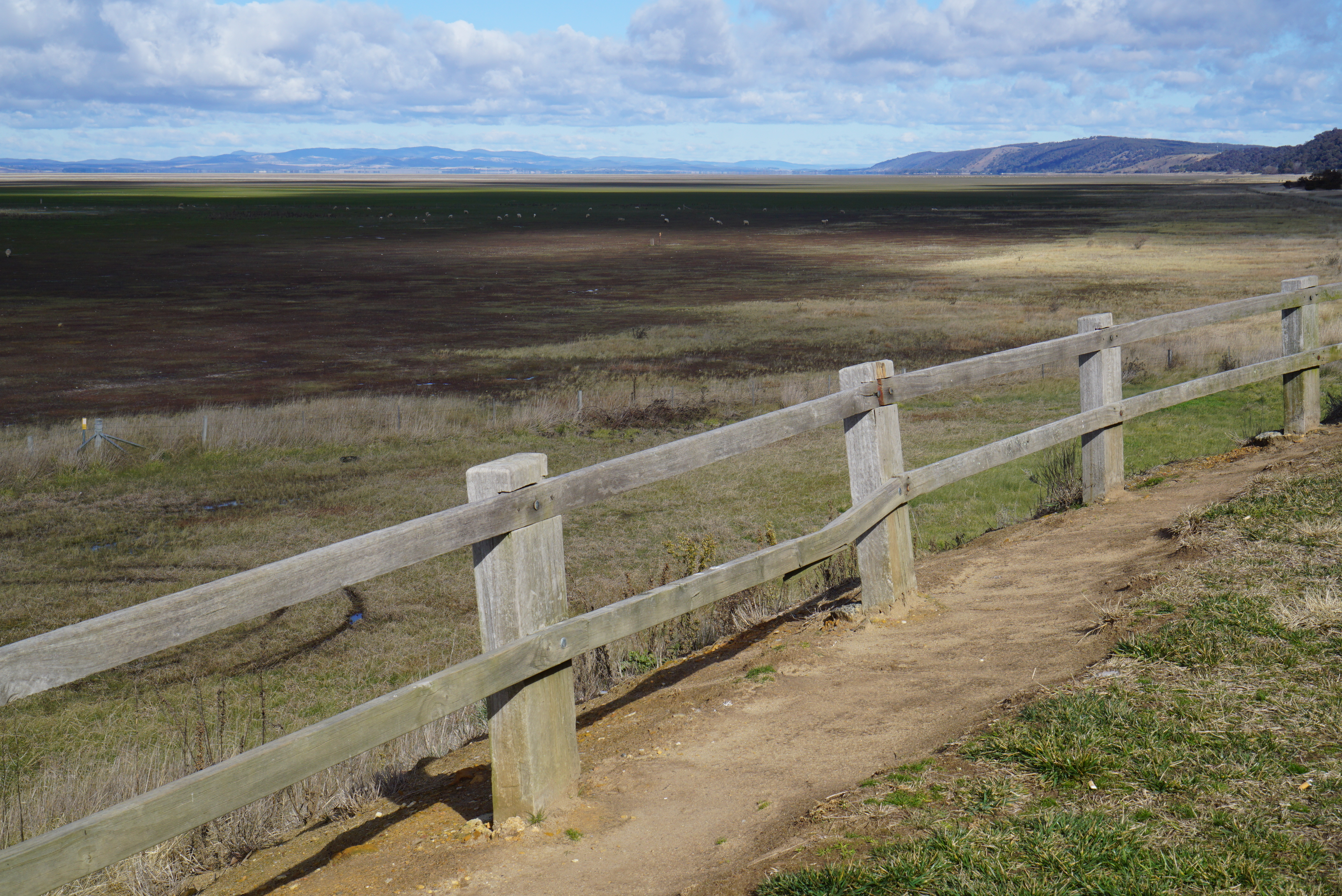 Lake George, New South Wales near Canberra.